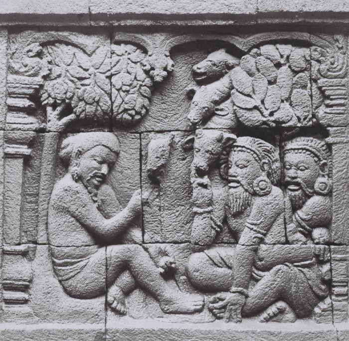 Relief panel "Maitrabala-jataka 1", Borobudur, Central-Java.